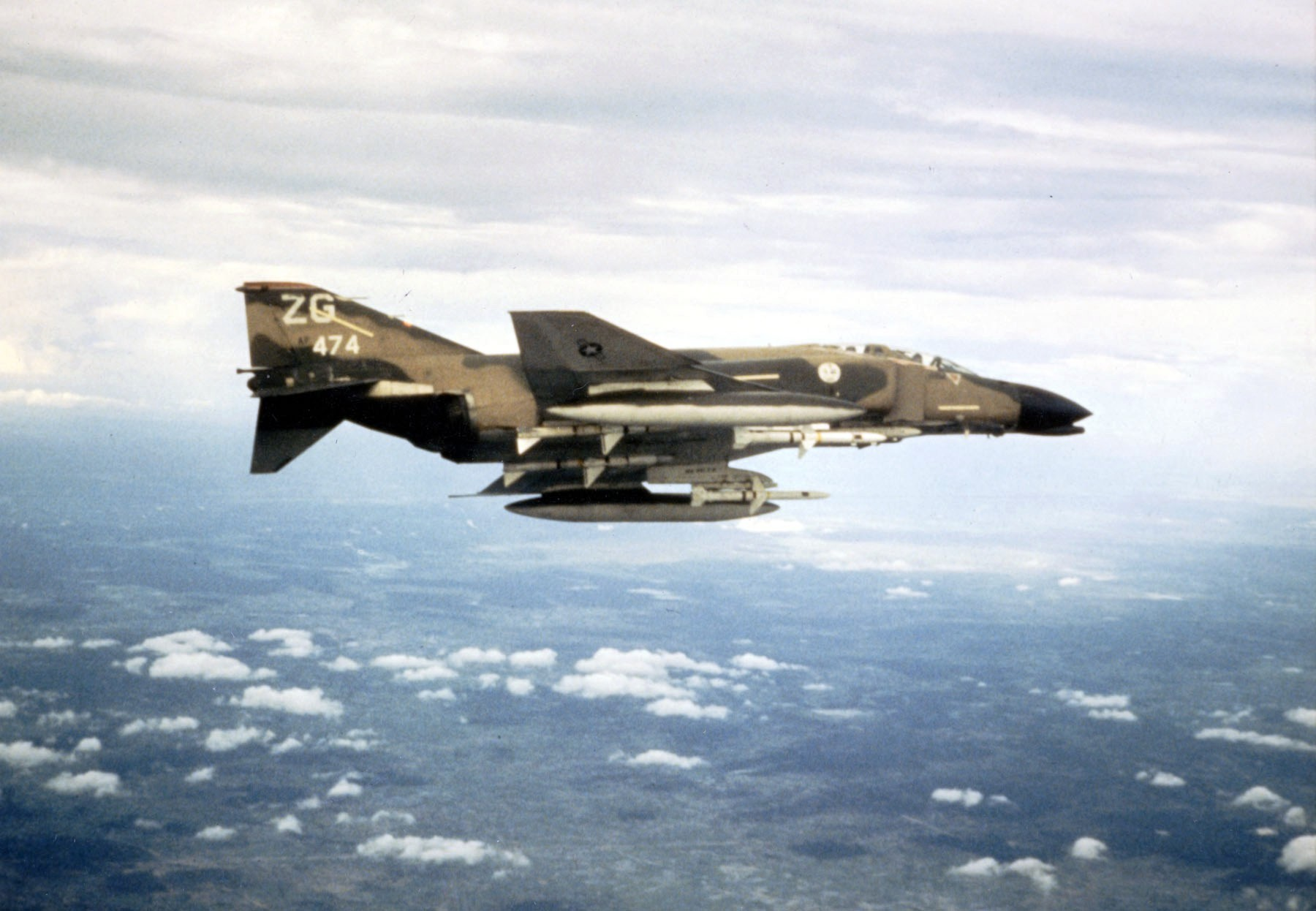 A U.S. Air Force McDonnell Douglas EF-4C Phantom II aircraft (s/n 63-7474) of the 67th Tactical Fighter Squadron, 18th Tactical Fighter Wing over North Vietnam in December 1972. It is armed with AGM-45 Shrike and AIM-7 Sparrow missiles and carries an AN/ALQ-72 ECM pod. The EF-4C "Wild Weasel IV" was a parallel development with the F-105G "Wild Weasel III" program. 36 aircraft F-4Cs were modified and fitted with AN/APR-25 Radar Homing and Warning System (RHAWS), AN/APR-26 SAM launch warning system, and ER-142 electronic countermeasures receiver. After the F-4G became available in the late 1970s these aircraft were flown als regular F-4Cs.